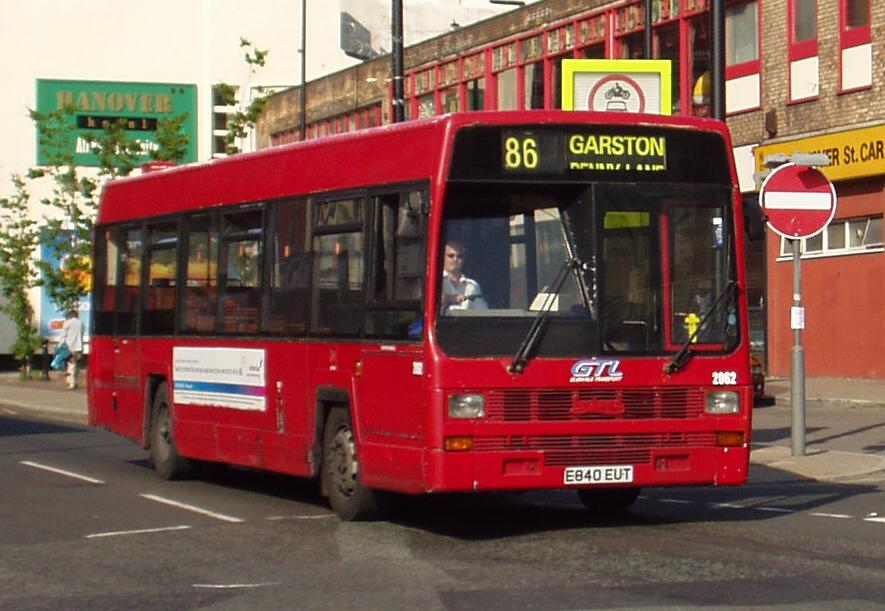 Leyland Lynx bus belonging to GTL Glenvale Transport in Hanover Street, Liverpool.